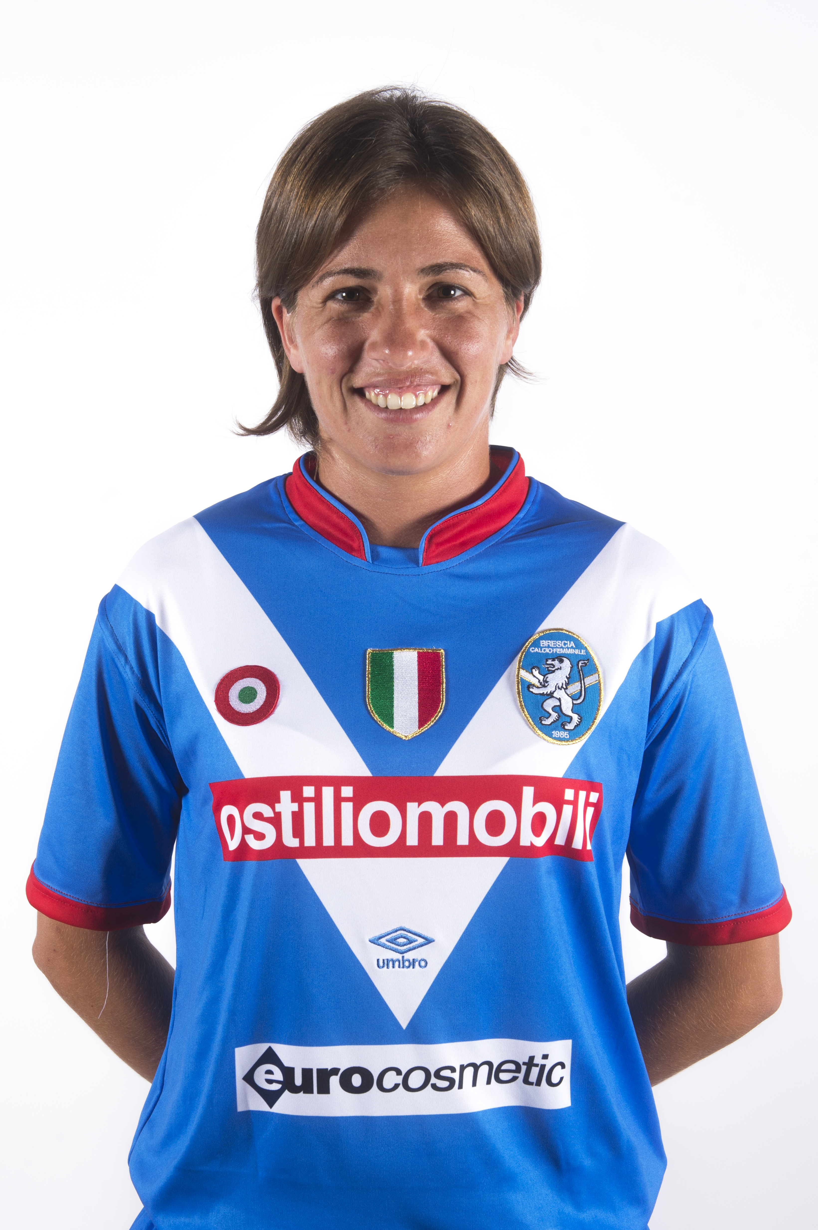 Daniela Sabatino with the jersey of Brescia Calcio Femminile in August 2016.